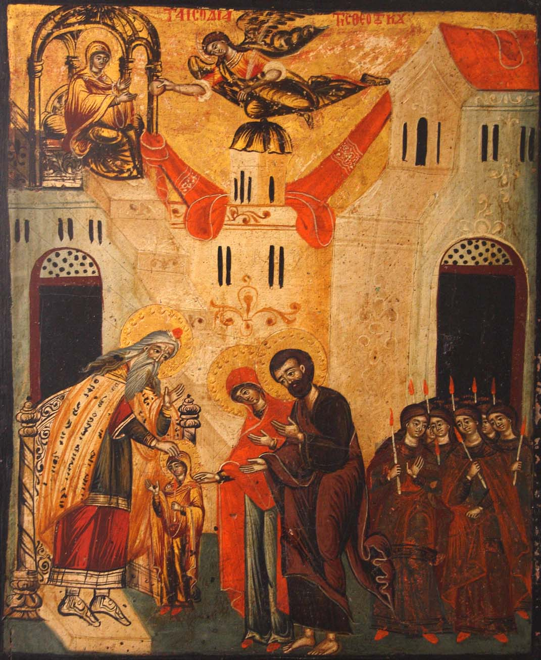 The Presentation of the Virgin Mary in the Temple of Jerusalem Greek School 17th or 18th Century; National Museum of Fine Arts Native nameMużew Nazzjonali tal-Arti Parent institutionHeritage Malta LocationValletta, MaltaCoordinates35° 53′ 54″ N, 14° 30′ 33″ E Established2018 Web page control : Q6974470 VIAF: 151410723 ISNI: 0000 0001 2296 5135 LCCN: n91116256 OSM: 5760253 WorldCat institution QS:P195,Q6974470